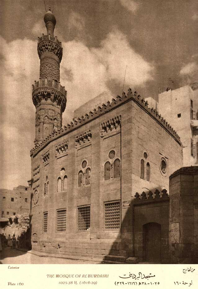 Mosque of al-Burdayni, Cairo